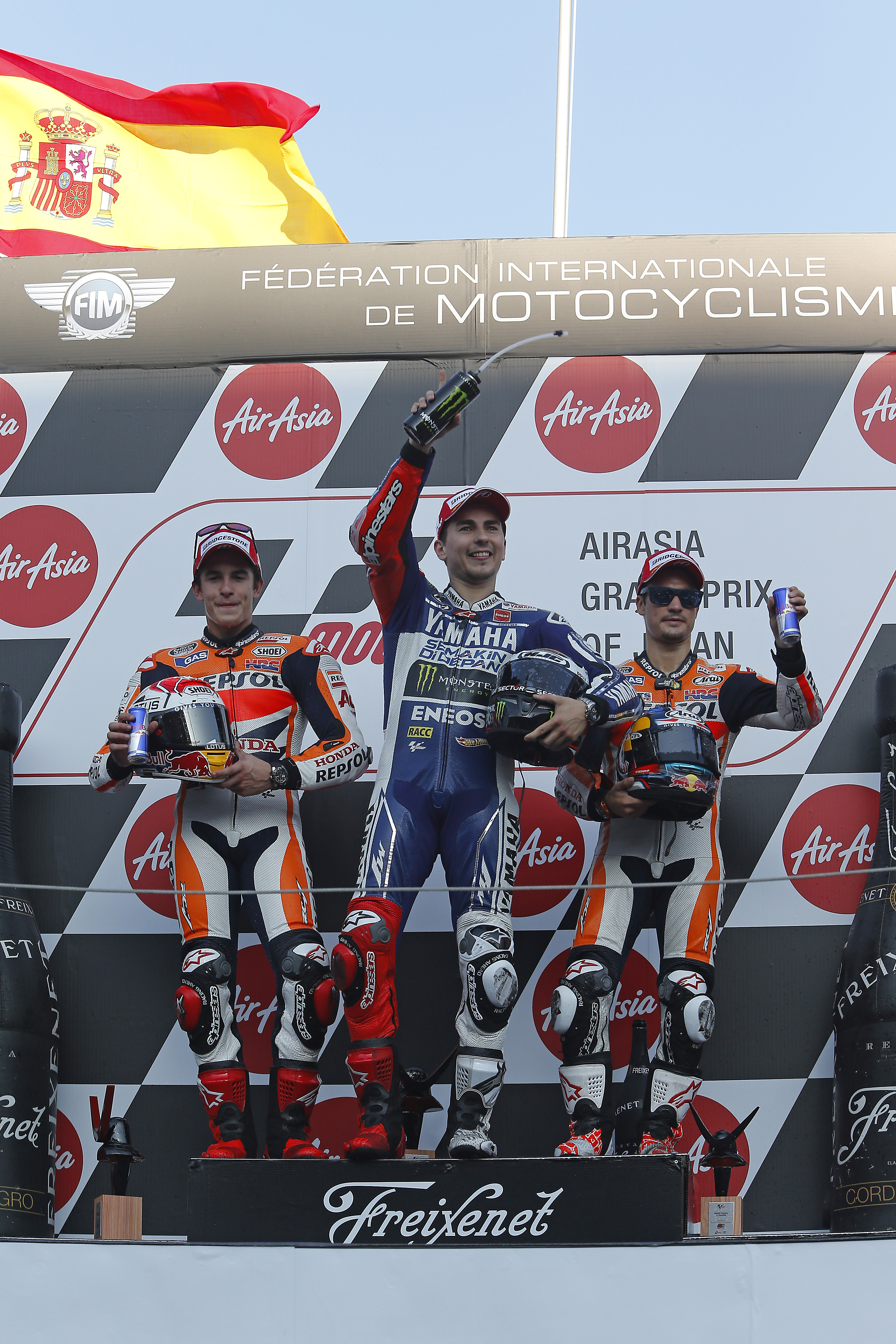 Marc Márquez, Jorge Lorenzo and Dani Pedrosa, celebrating on the podium after finishing in second, first and third place at the 2013 Japanese Grand Prix.